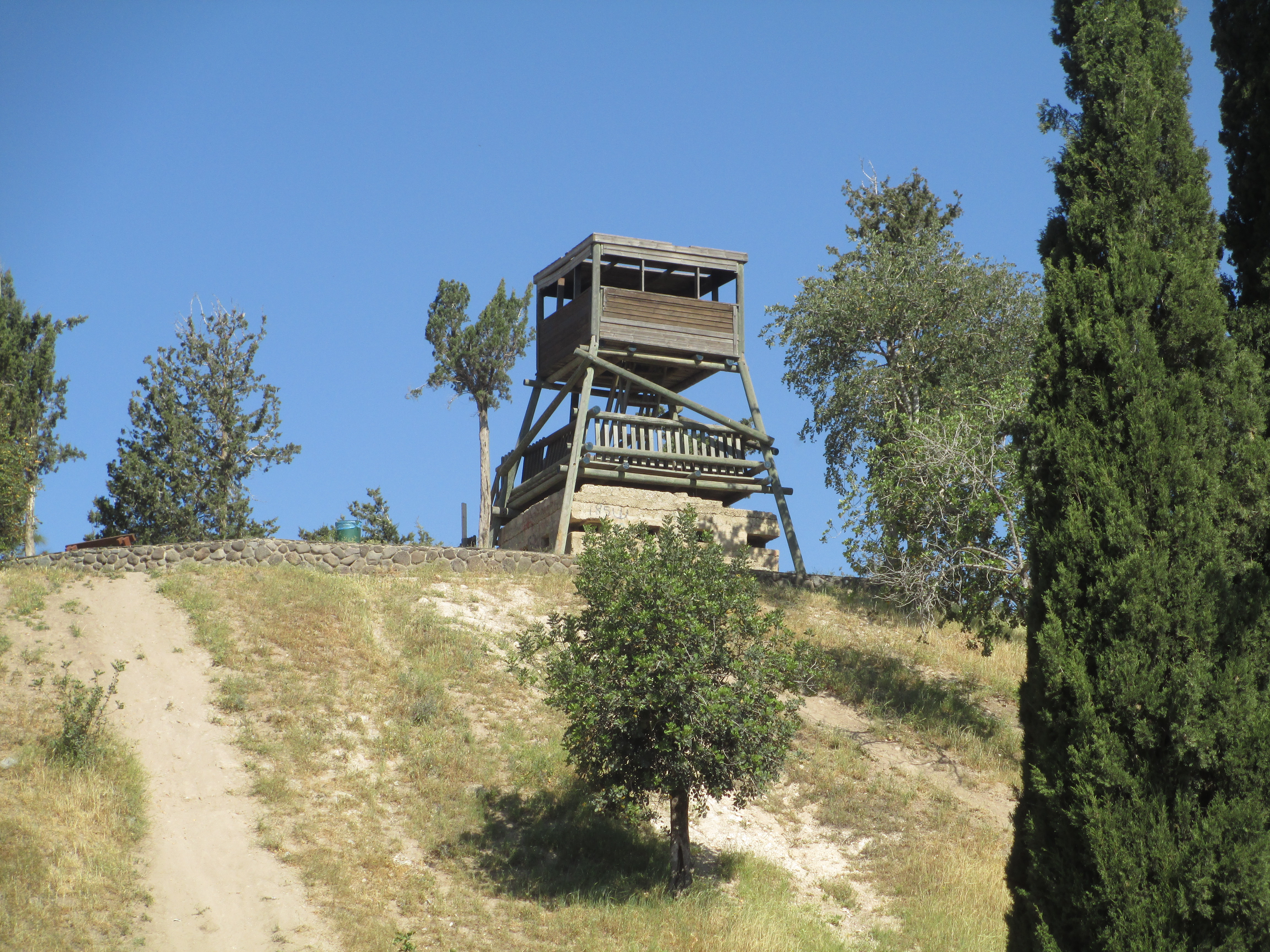 Tel Shimron